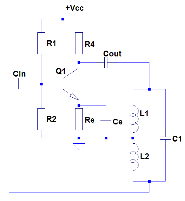 Joonis 3. Hartley ostsillaator kasutades transistorvõimendit